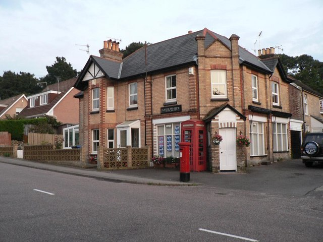 Lilliput: the old post office This used to be Lilliput's post office, which subsequently relocated to the shopping parade on Sandbanks Road before closing on 7 November 2005 - not at the Post Office's behest but when Tesco took over the One Stop convenience stores. Numerous post offices closed under this takeover. These premises feature two interesting items: Firstly, a very rare Edward VIII-reign postbox; see 975239 975245 Secondly, the Lifebuoy Soap advert, central above the window, changes appearance depending on your viewpoint; see 975250 975252 975256